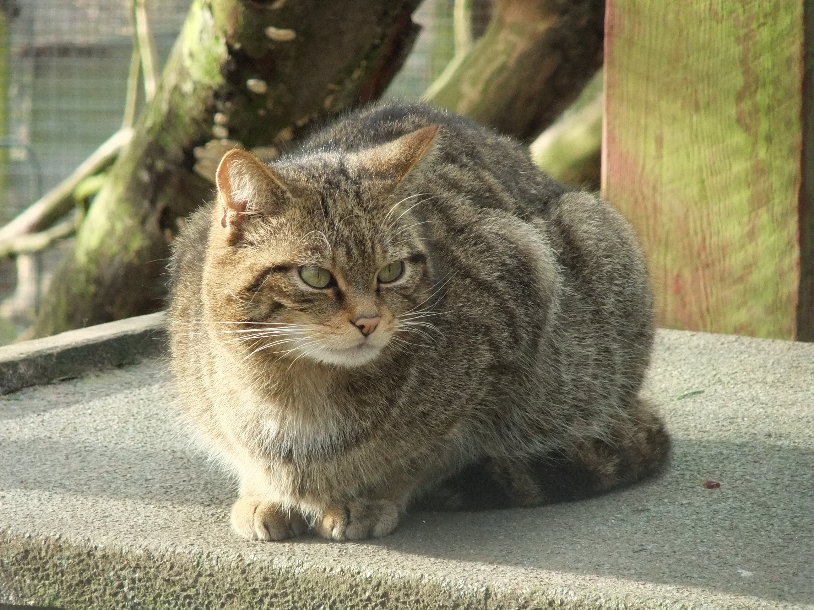 A European Wildcat at Camperdown Wildlife Centre, Dundee, Angus, Scotland.